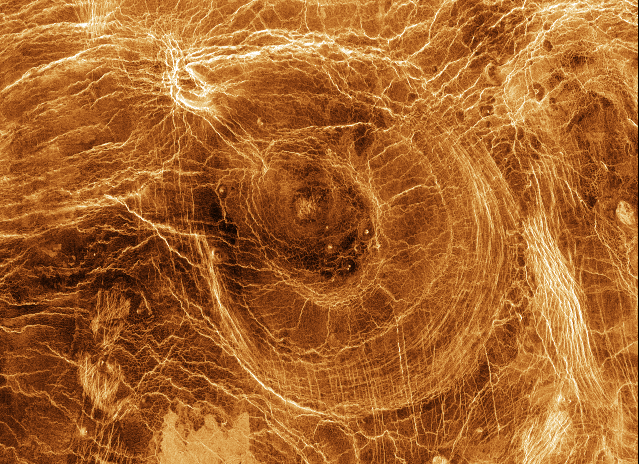 Arachnoid Trotula Corona on Venus (map of the region). Radar image by Magellan. This image was cropped slightly and converted to PNG from the from the original GIF.